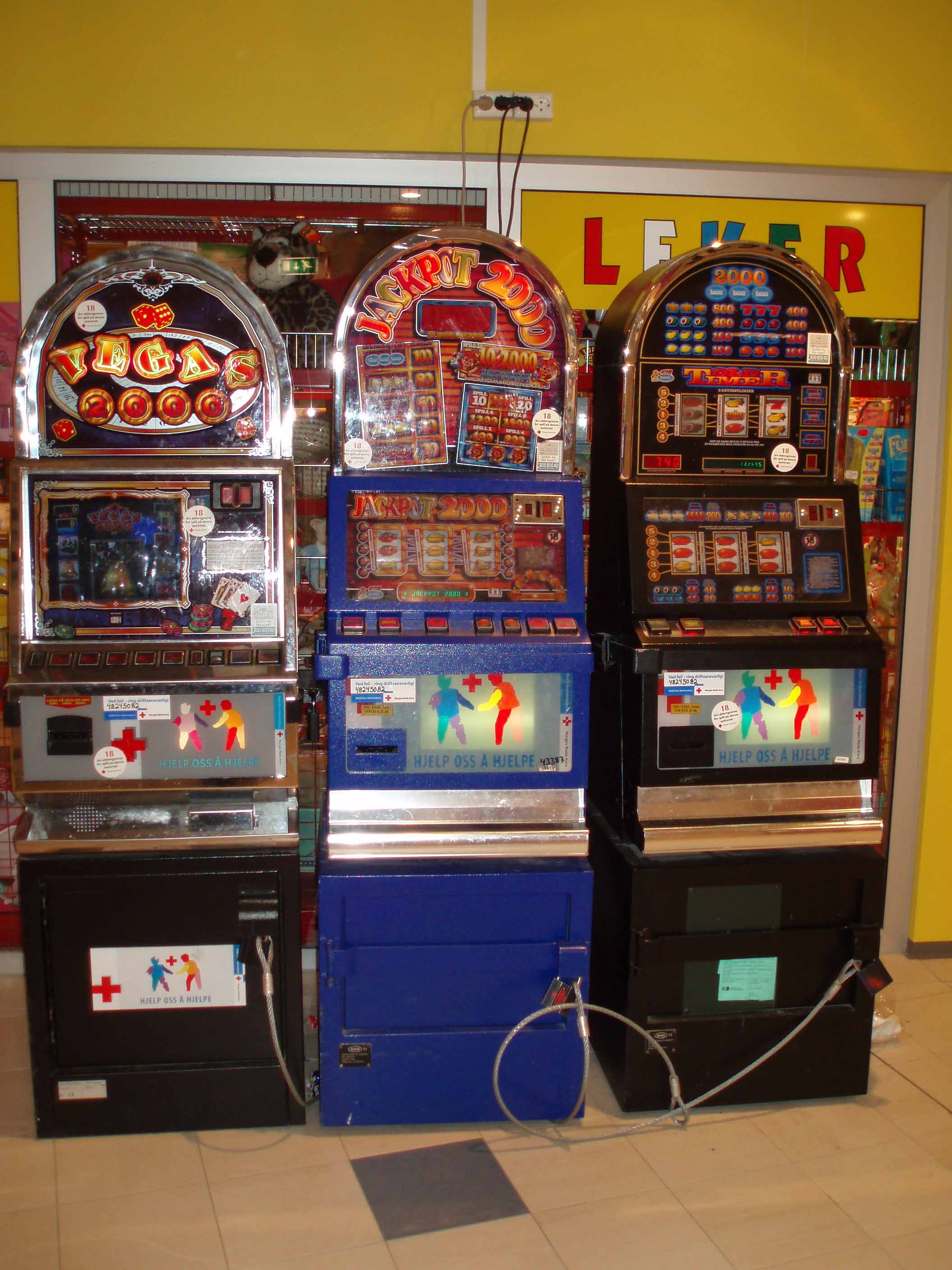 Slot machine, Norway